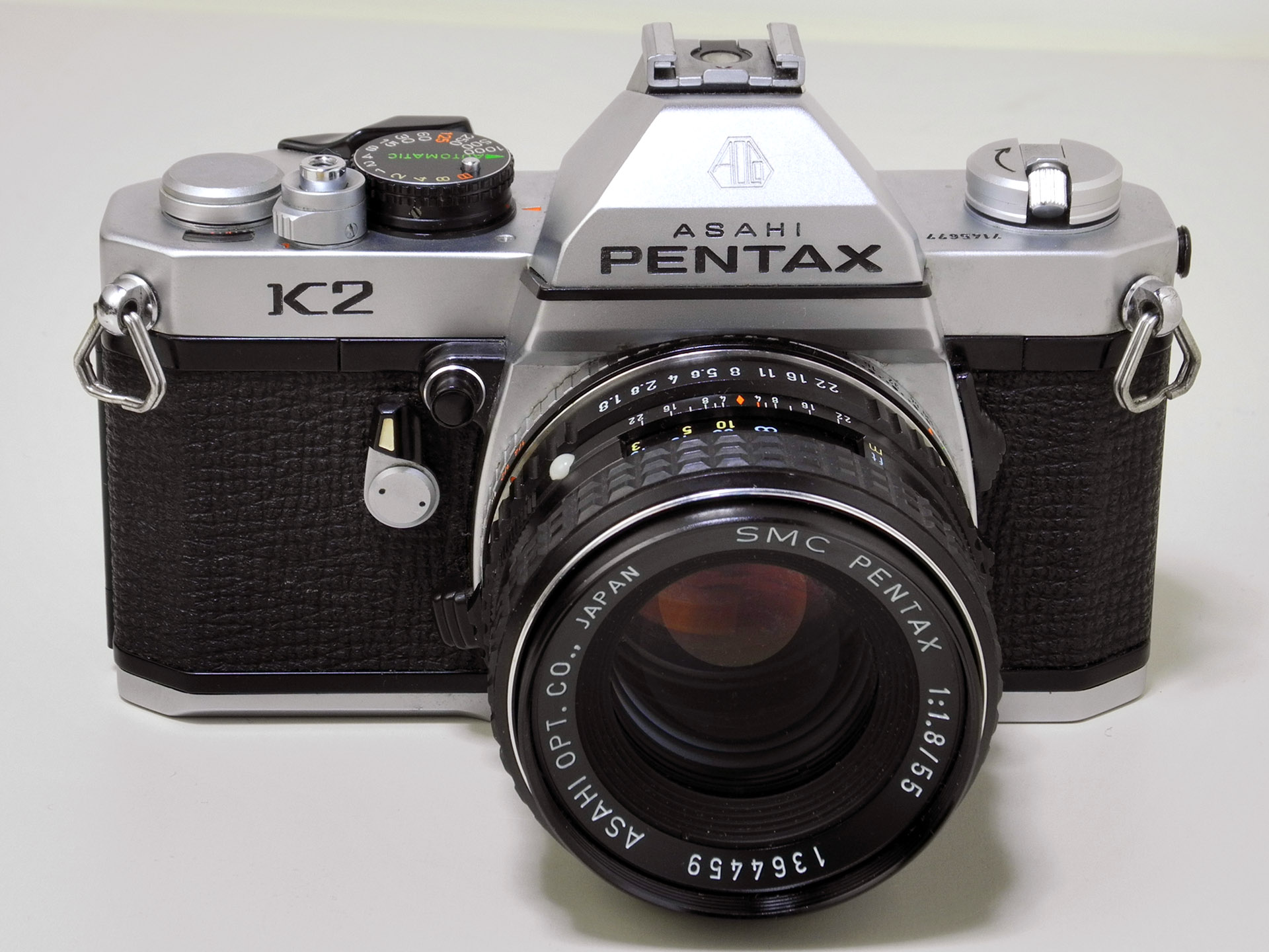 Pentax K2 w/55mm f/1.8